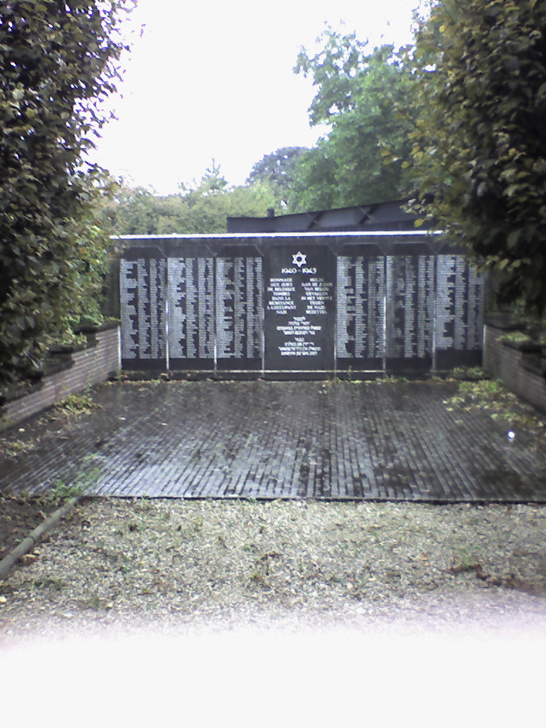 what is generally known as the Brussels (or Belgian) Holocaust Memorial, more formally as the: National Monument to the Jewish Martyrs of Belgium Mémorial National aux Martyrs Juifs de Belgique Nationaal Gedenkteken der Joodse Martelaren van België More than twenty thousand names of Jewish dead are inscribed on the walls here, Jewish victims from all around Belgium, some of whom were killed on Belgian territory, but many of whom were shipped off to the death camps in the East for their extermination. Walon: Nationaal Gedenkteken der Joodse Martelaren van België